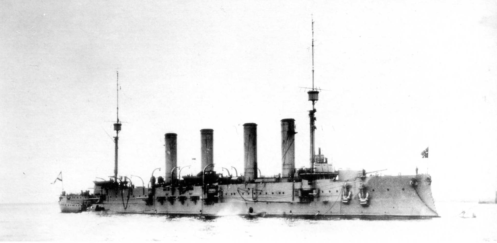 Crew of armoured cruiser Pallada